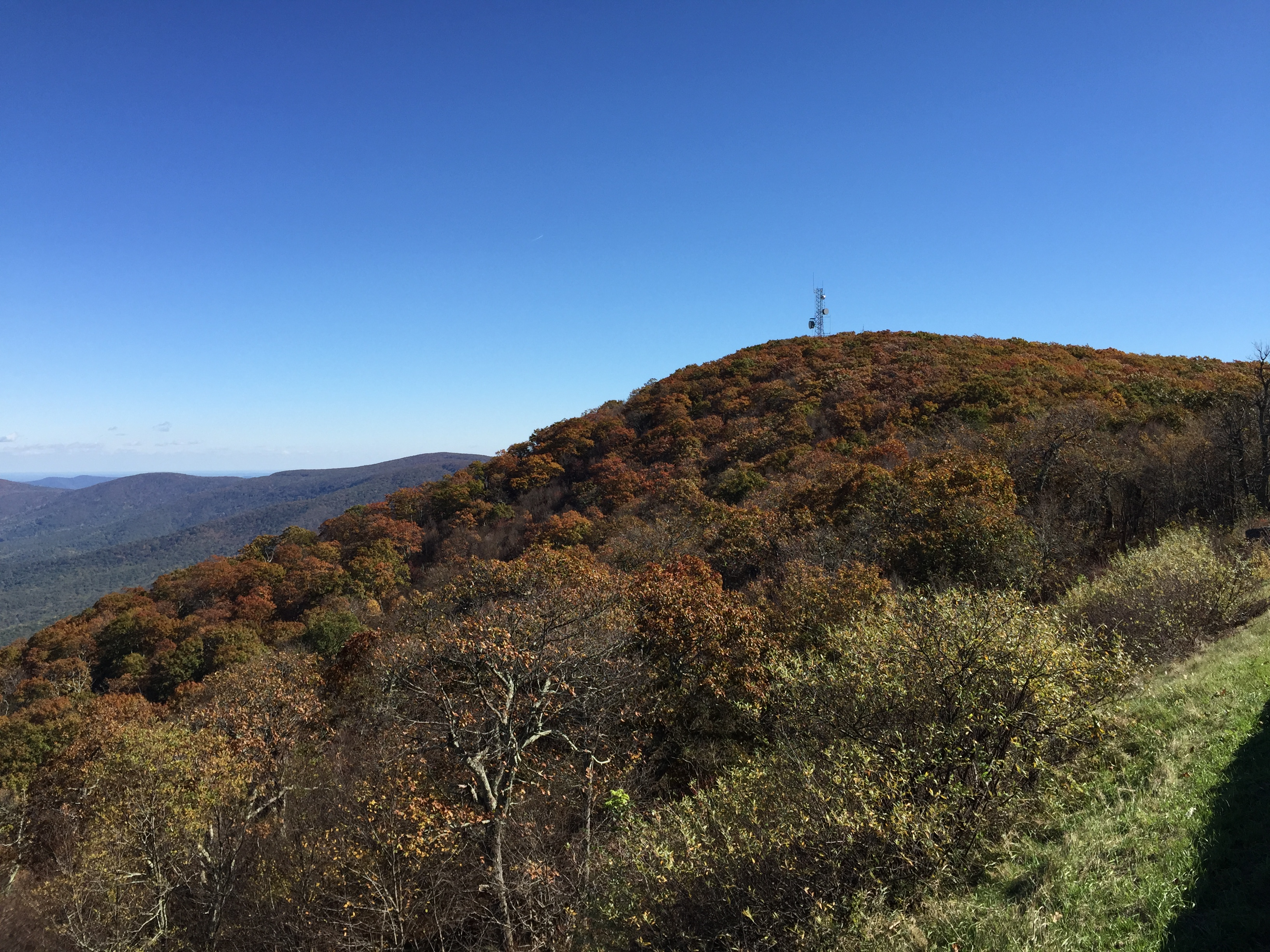 View east from the Hogback Overlook along Shenandoah National Park's Skyline Drive in Warren County, Virginia